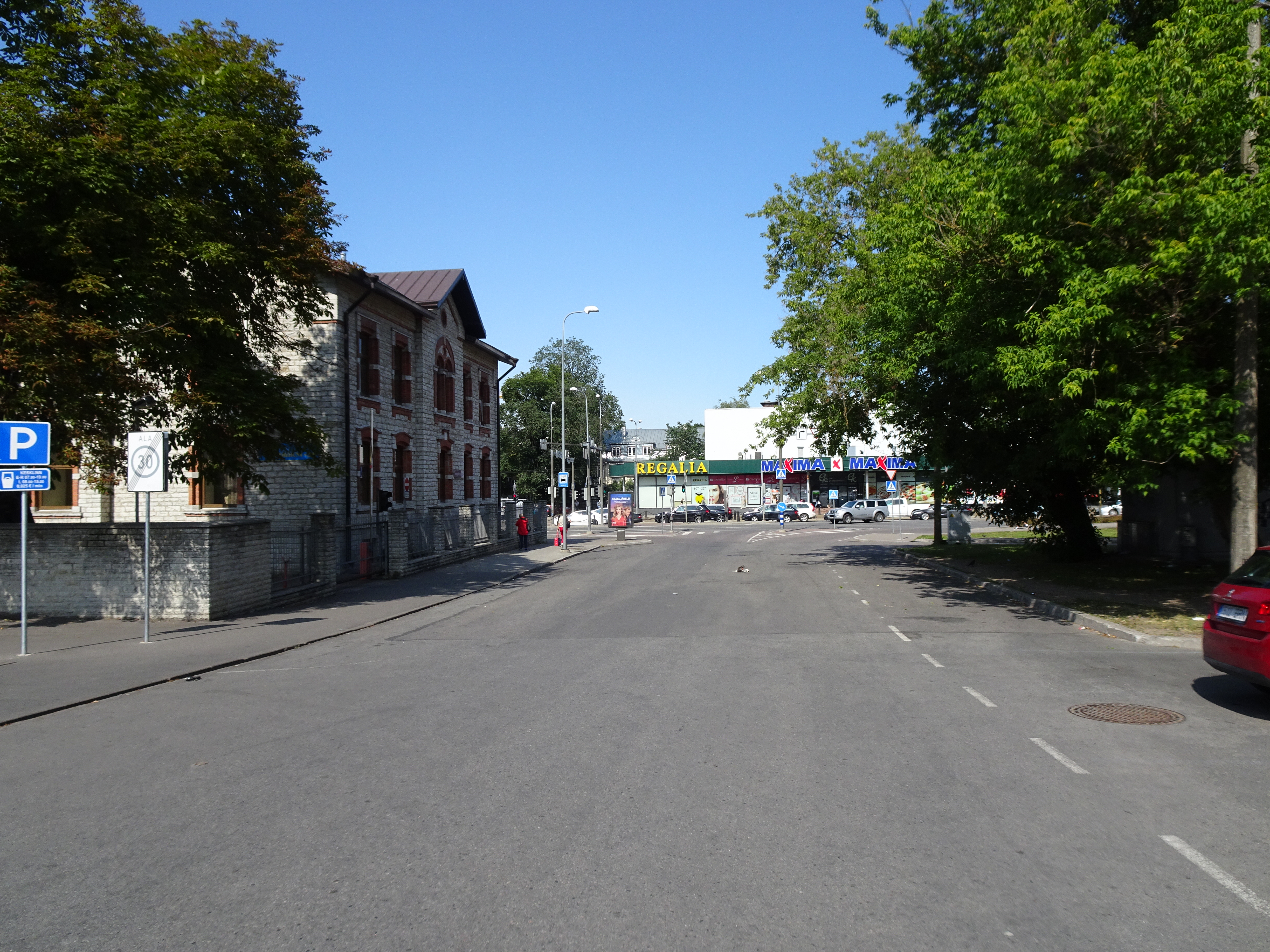 Torupilli ots Street in Tallinn, Estonia